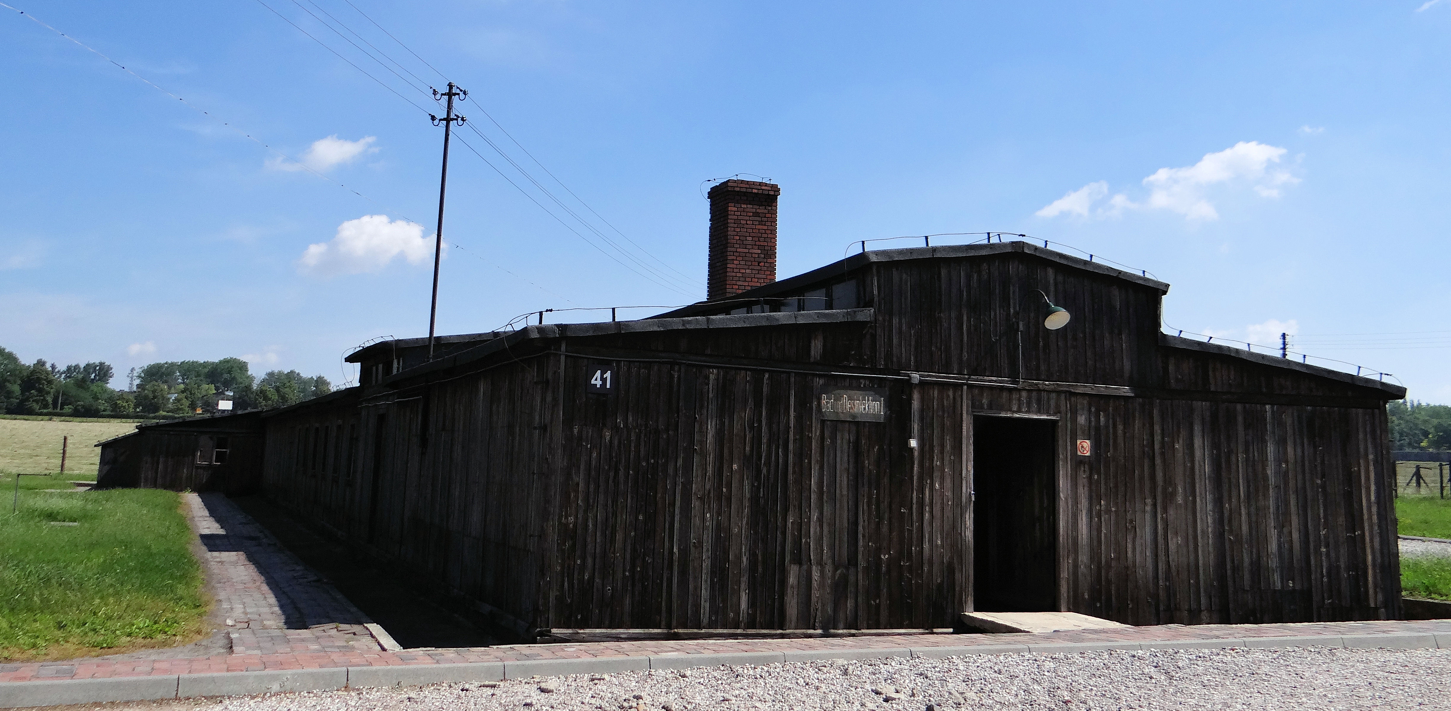 KL Majdanek Baths and Gas Chamber